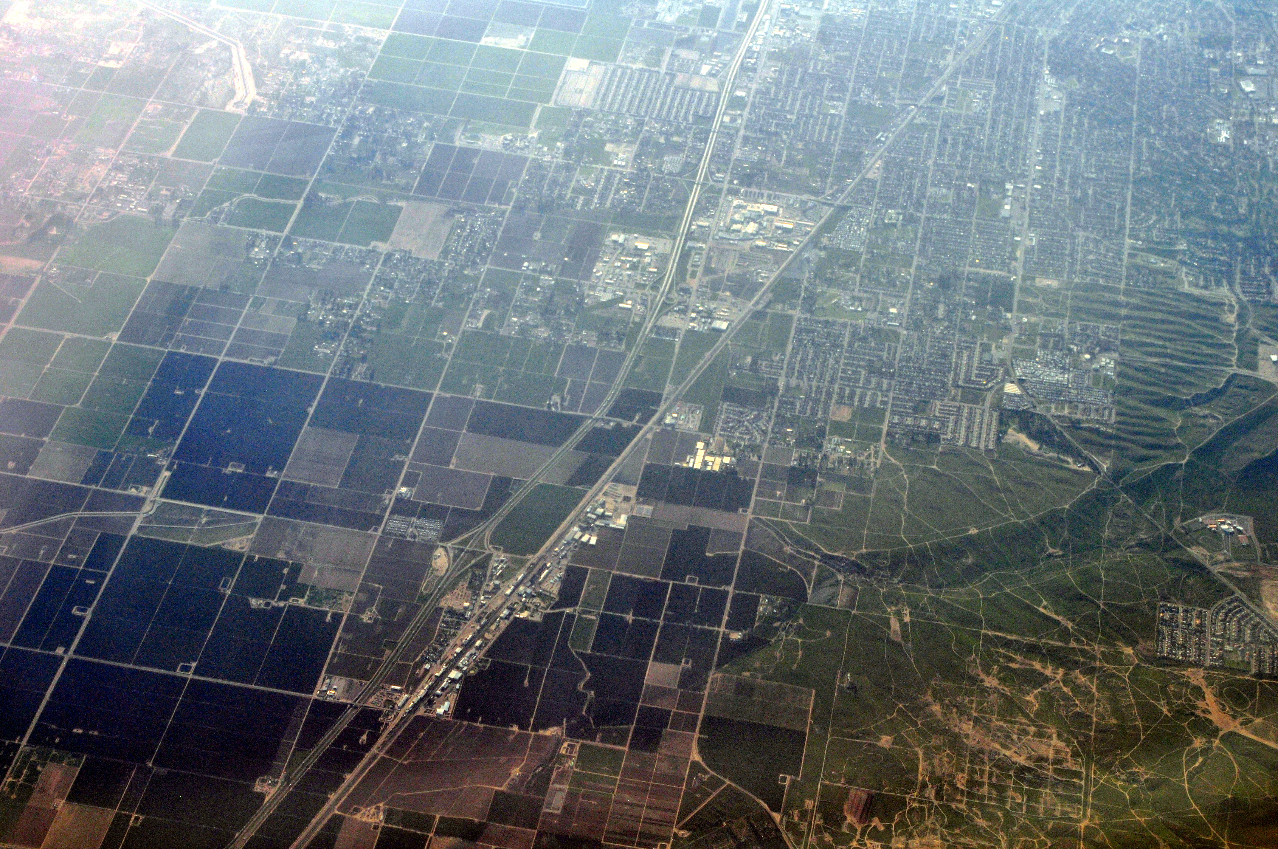 Aerial view, looking roughly WSW toward Edison, California, U.S., toward sunset.